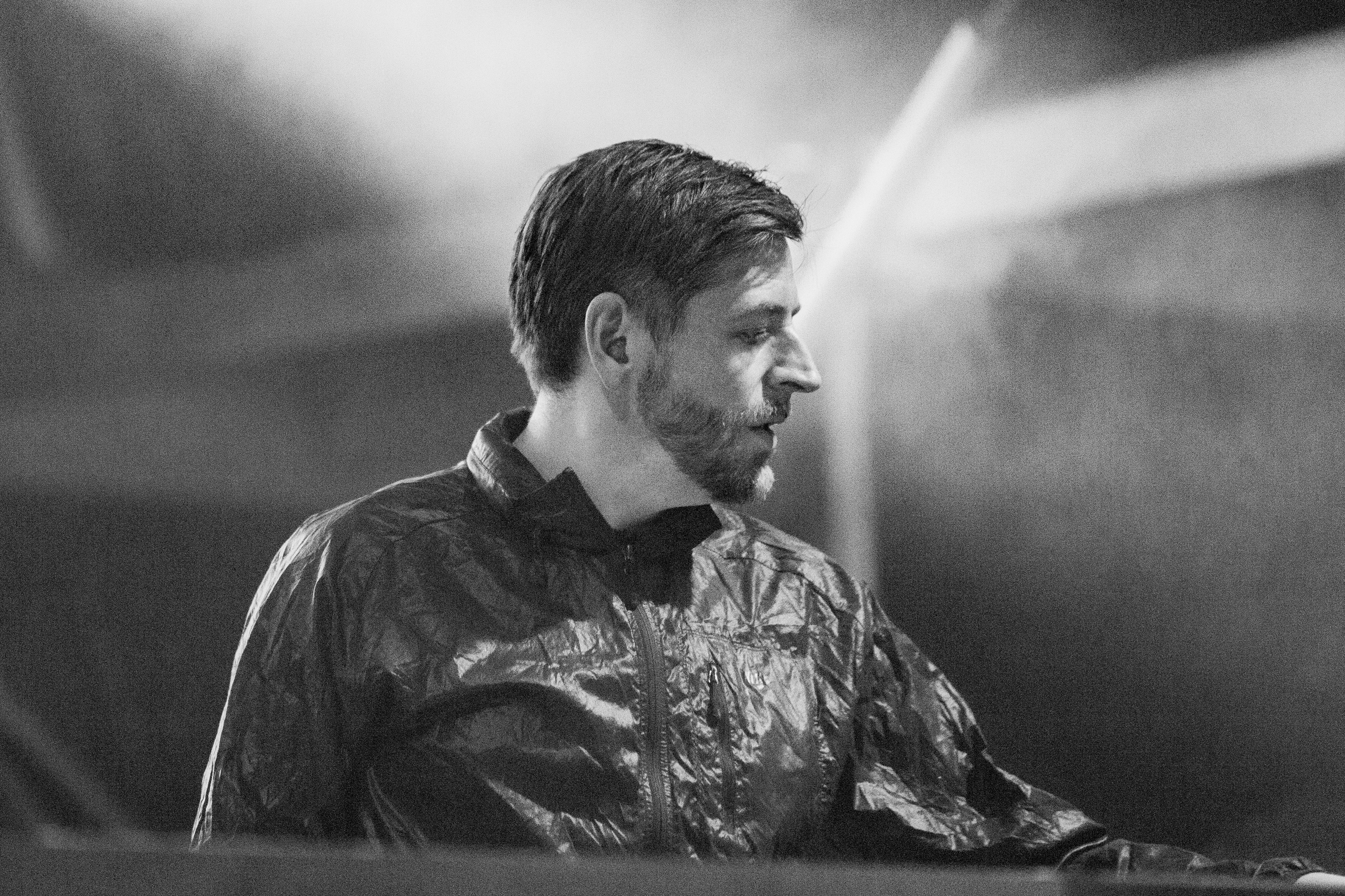 Moonbootica at SonneMondSterne 2018, SMS.Beach: Katermukke